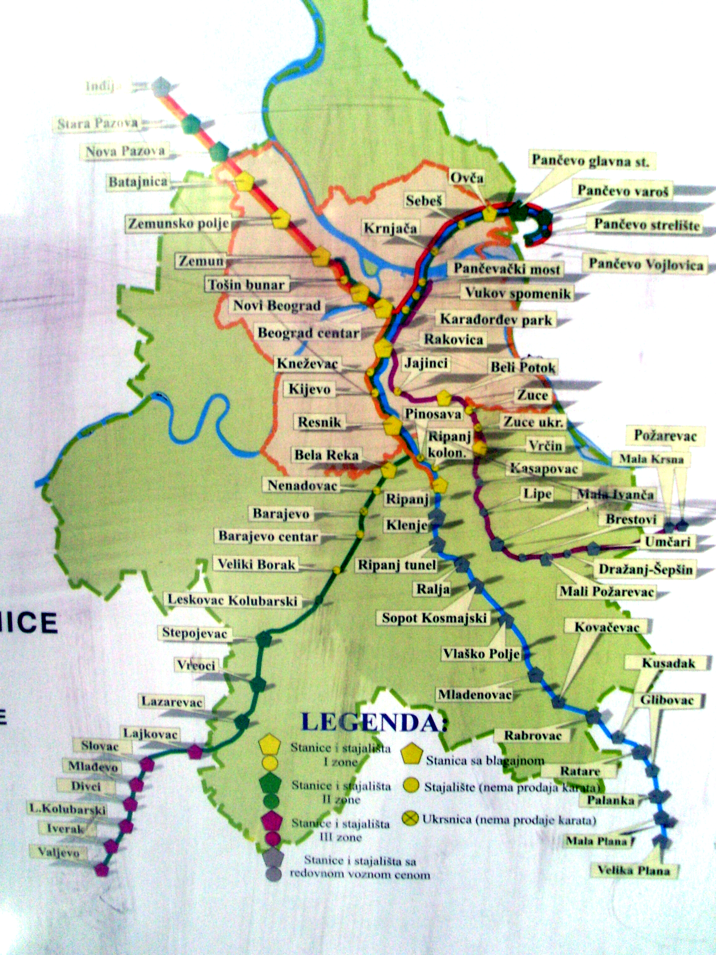 Map of Beovoz lines as of 2008